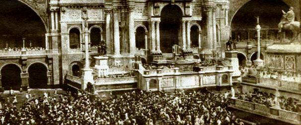 Still for the Italian film Theodora (1921), on page 39 of the January 1922 Screenland.